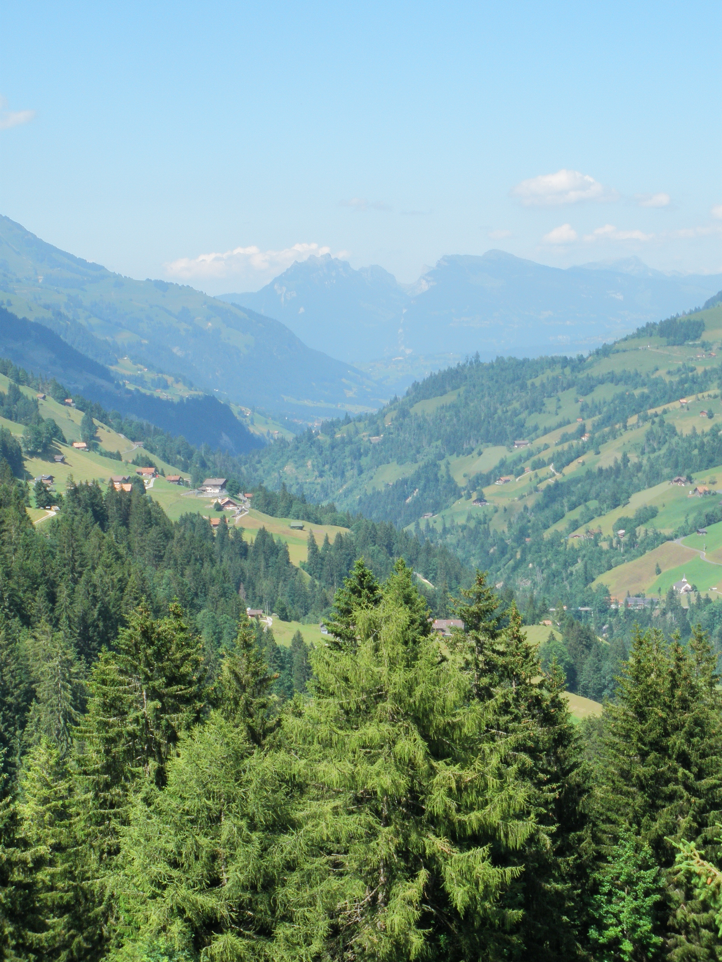 Engstligen valley downstream of Adelboden